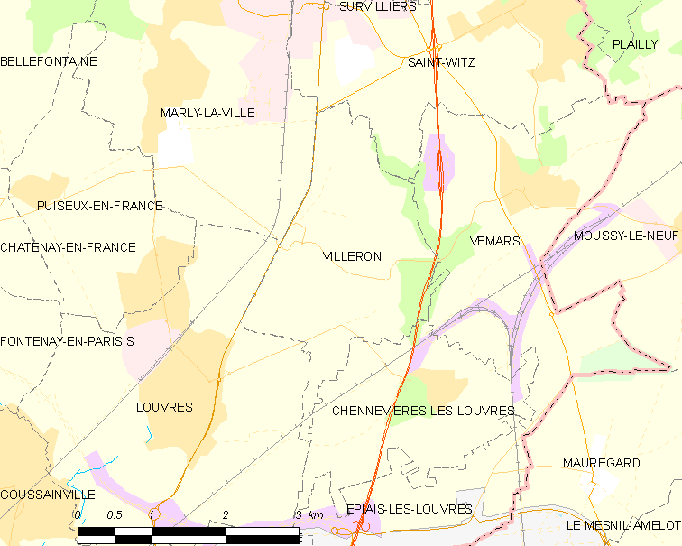 Map of French municipality Villeron